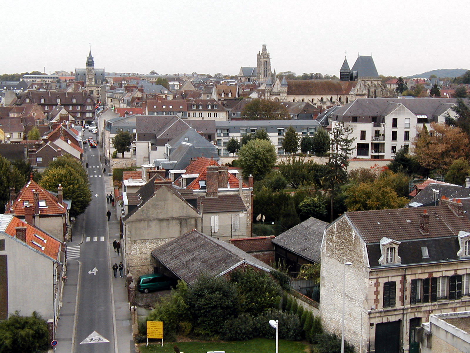 Picture of downtown Compiègne as taken from the top of the univesity. The taller building on the left of the picture is the city hall.